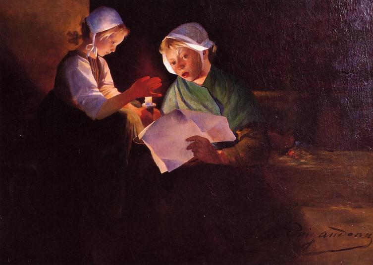 Oil painting reproduction of Ferdinand du Puigaudeau.